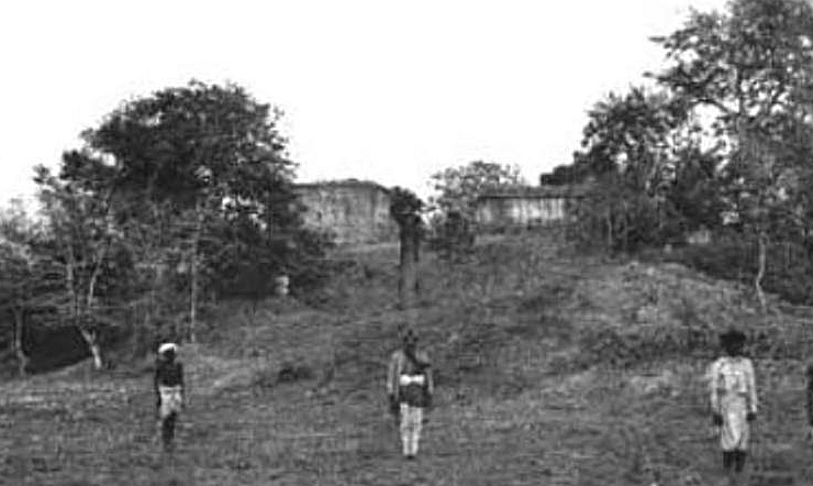 Rummindei view of the ruins and the Lumbini pillar from the West (detail)